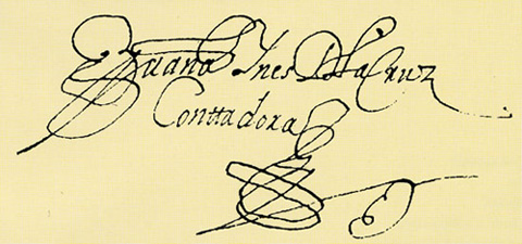 Sor Juana's signature, 1689. (Margo Glantz, Sor Juana Inés de la Cruz: Saberes y placeres, Toluca, Instituto Mexiquense de Cultura, 1996).